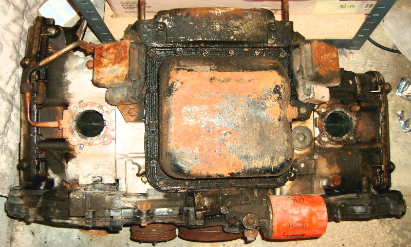 Subaru EA82 shown upside down